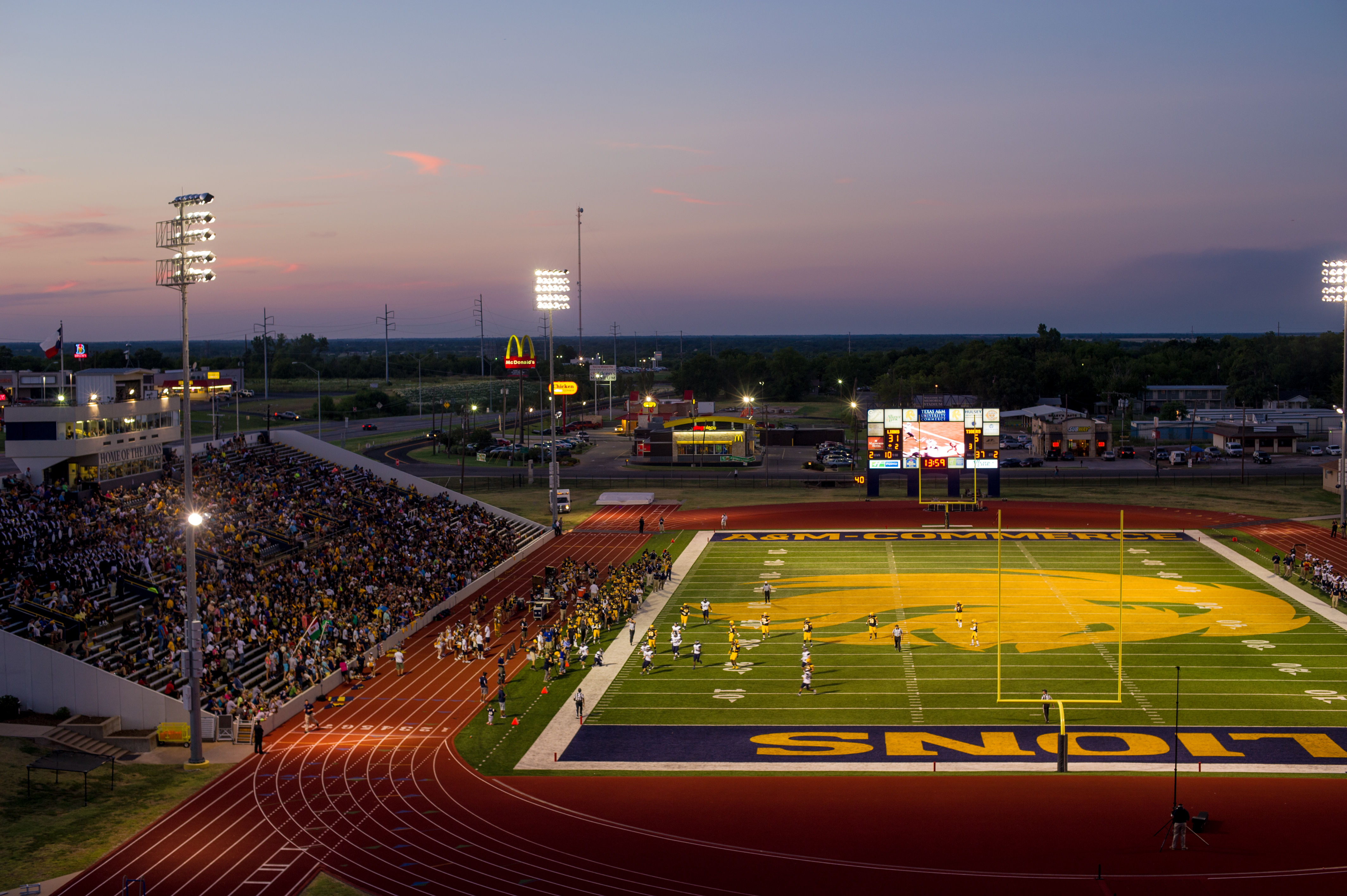 14437-Athletics-Football vs ETBU-9805 Scenes from the East Texas Baptist Tigers vs. Texas A&M–Commerce Lions football game on September 4, 2014.